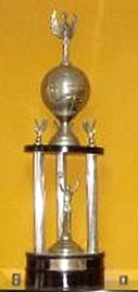 Football, Colombia, the Championship Trophy algunas copas del America de Cali